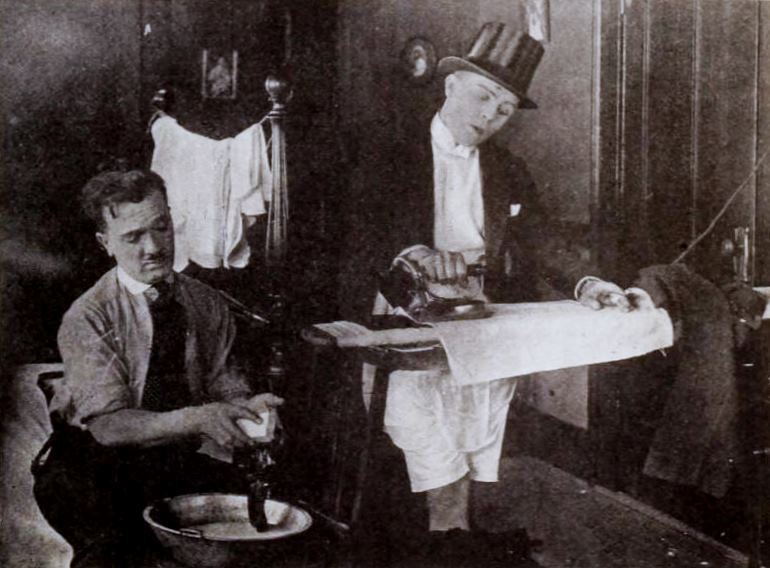 Still from the American comedy short film Short and Snappy (1921) with Billy Bletcher and Bobby Vernon, on page 77 of the April 30, 1921 Exhibitors Herald.